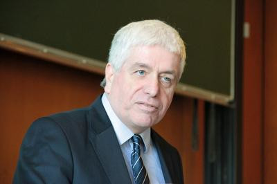 Picture of Gerhard Huisken